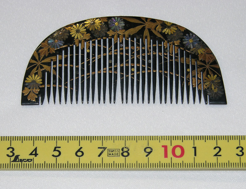 Japanese comb, used for hairdressing. Made from laquer-corted wood. Period unknown (maybe Maiji or Taishō).